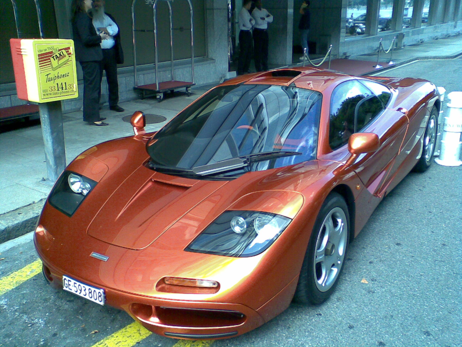 McLaren F1 in Geneva,Switzerland